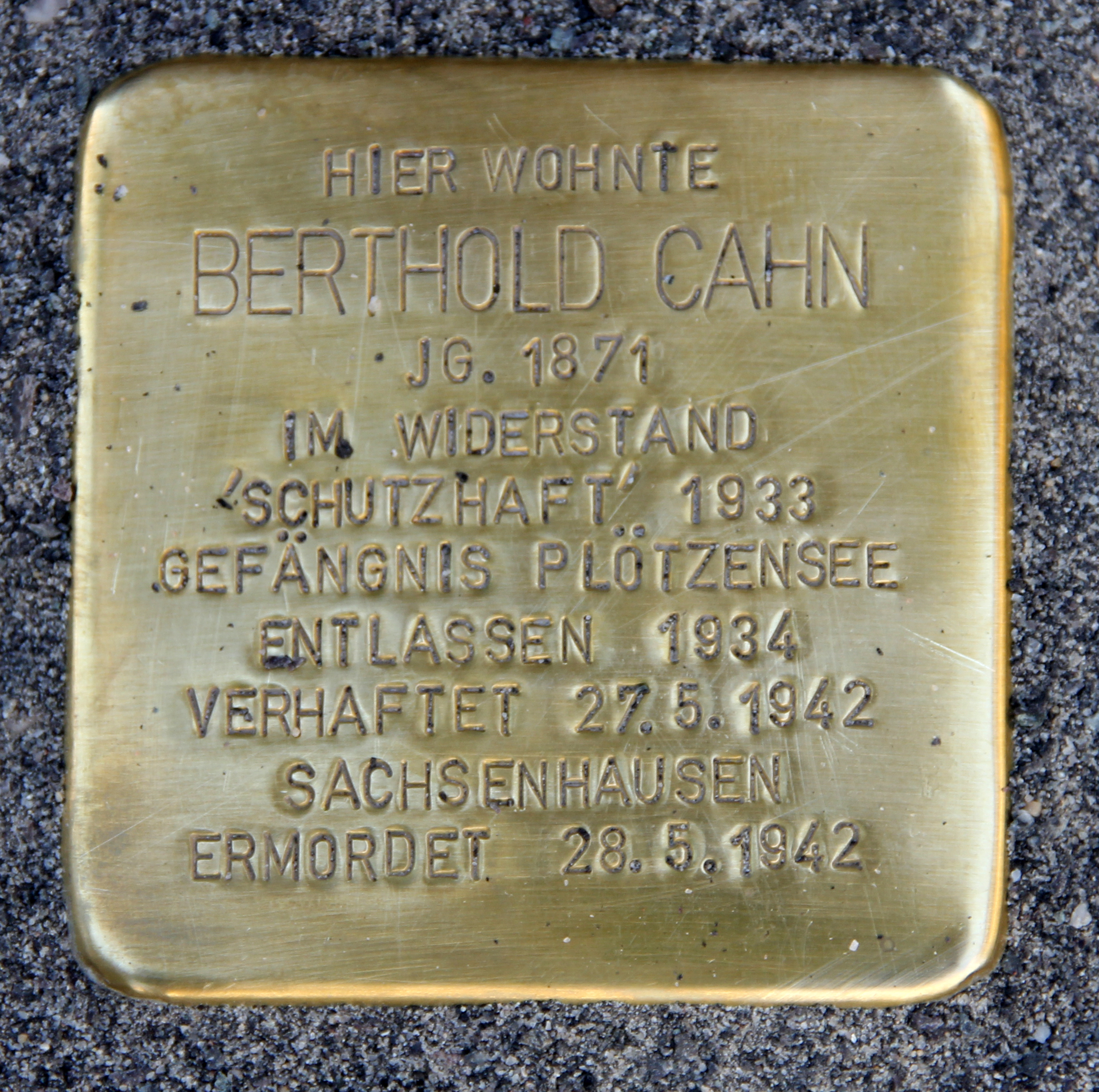 "Stolperstein" (stumbling block), Berthold Cahn, Wadzeckstraße 3, Berlin-Mitte, Germany